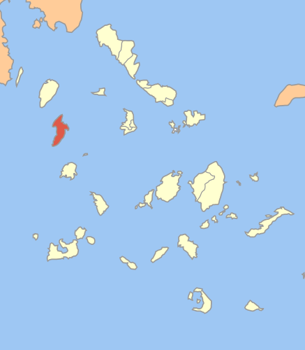 Locator map of Kythnos municipality (Δήμος Κύθνου) in Cyclades prefecture (Νομός Κυκλάδων) in Greece.